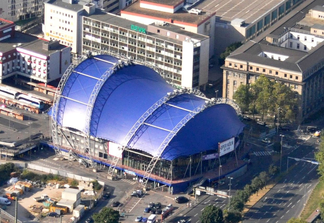 "Musical Dome" in Cologne, NRW, Germany, 2016